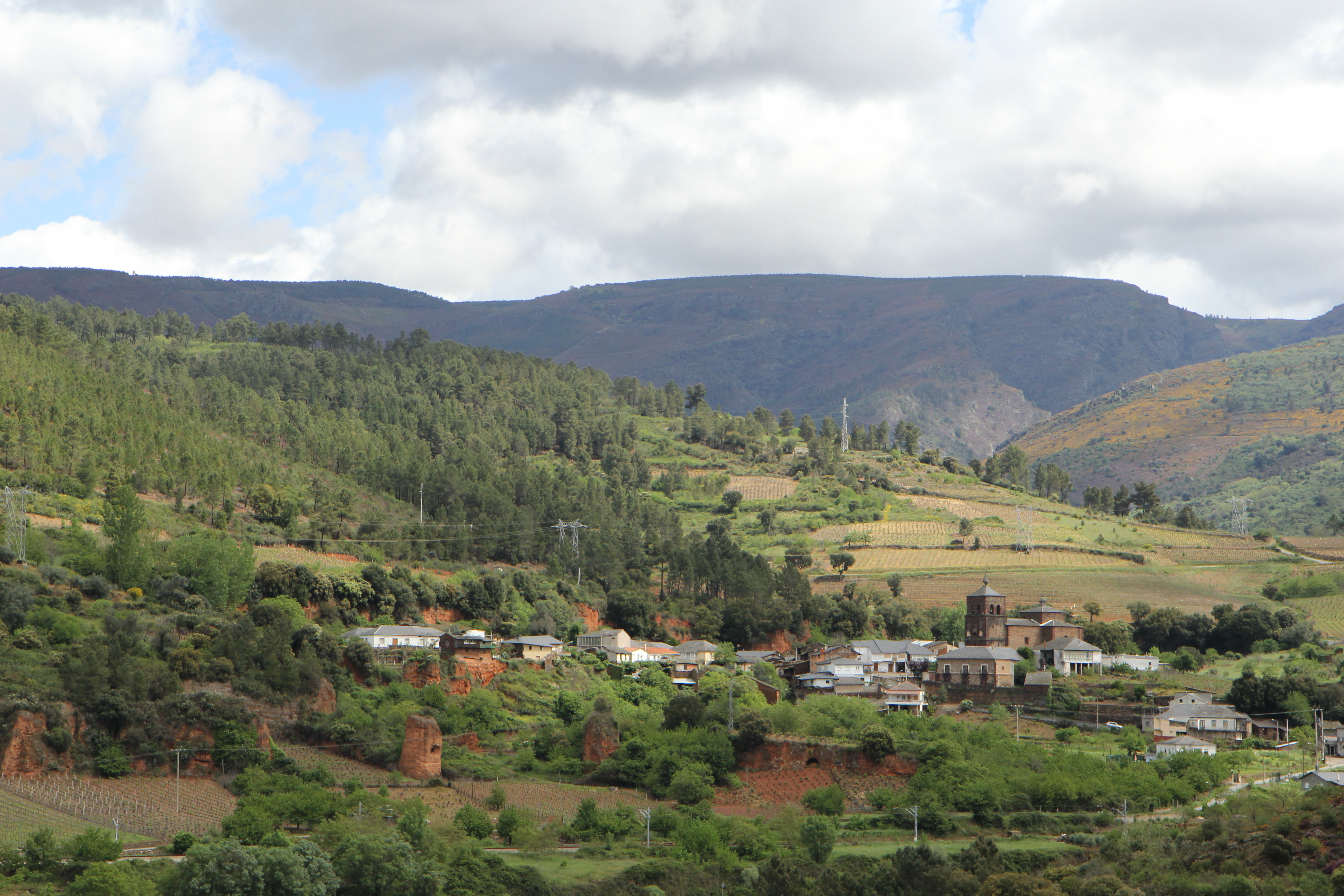 Panoramic view on the village of Montefurado in Spain